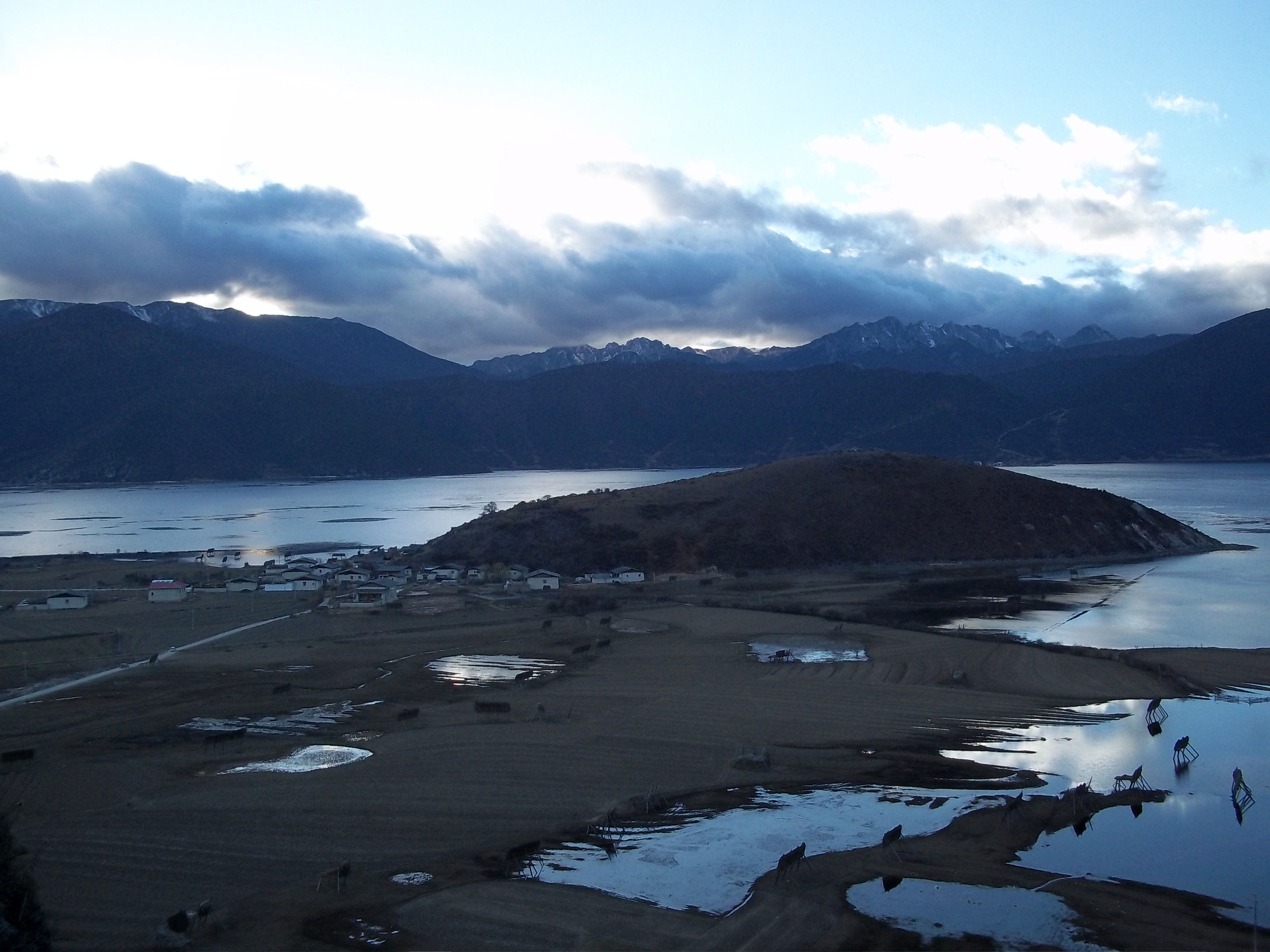 Napa Lake near Shangri-La, Yunnan Province, China